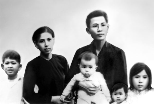 Family of Vo Van Kiet, 4th Prime Minister of Vietnam. His wife and two children were killed by a US rocket attack, in 1966.